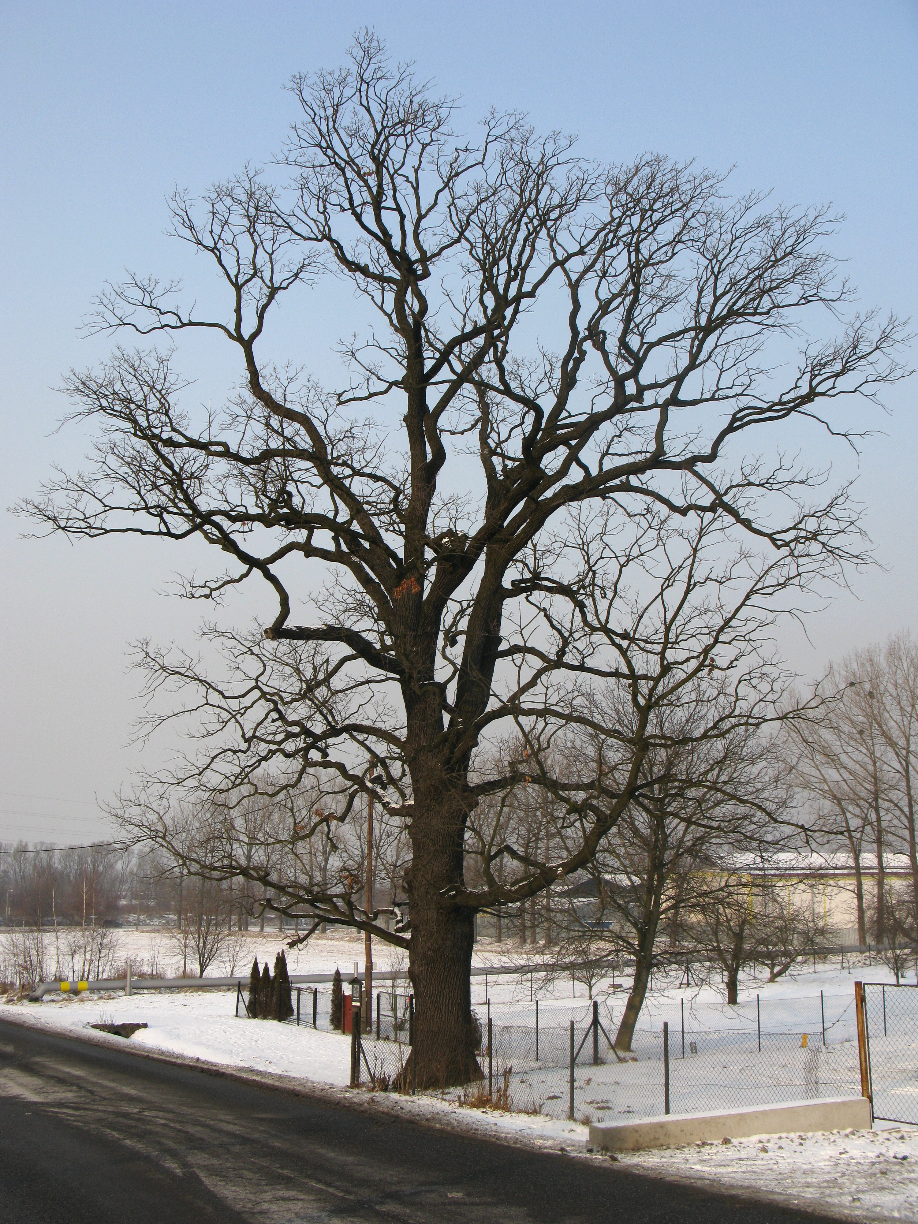 Habitus in winter